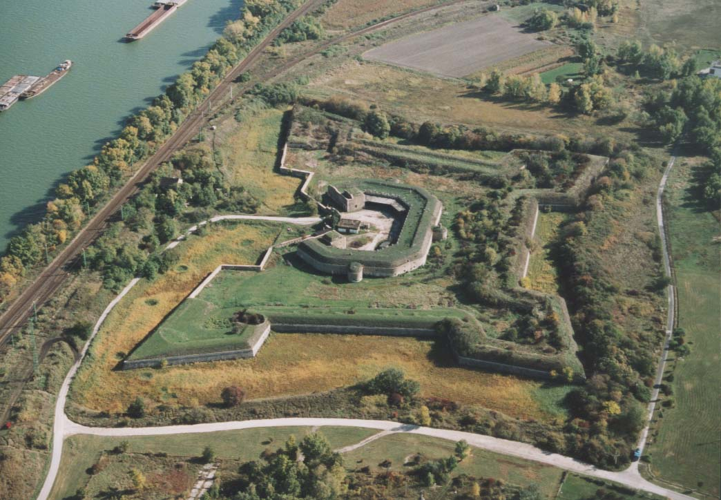 Fortress - Komárom - Hungary - Europe